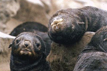 Northern Fur Seal Pups (Callorhinus ursinus)